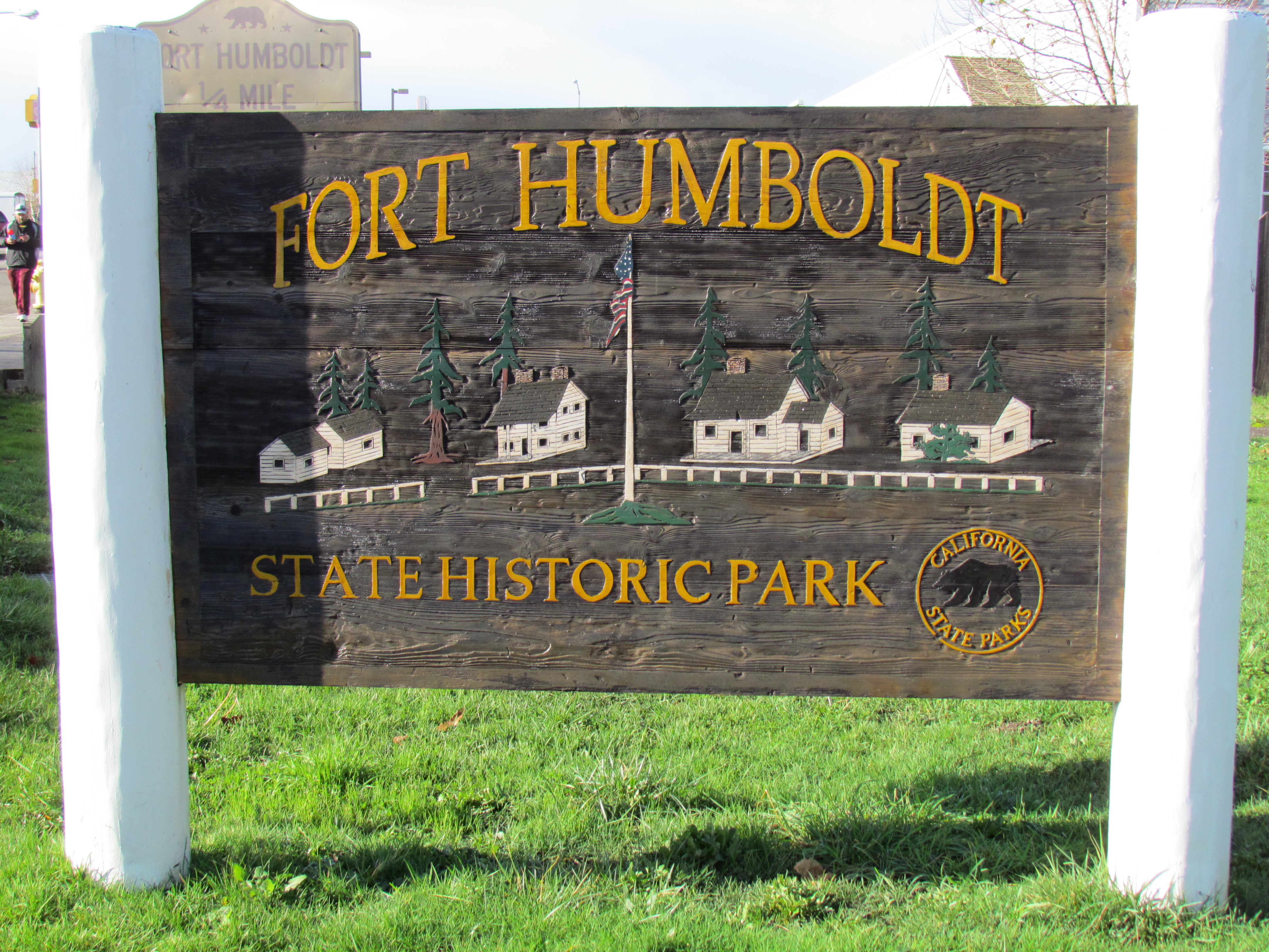 Sign at entrance to Fort Humboldt State Park, 3431 Fort Ave, Eureka, California, USA.